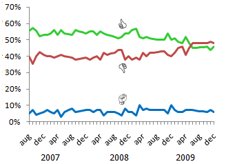 The euro opinion in Denmark since August 2006 according to opinion polls by Børsen.